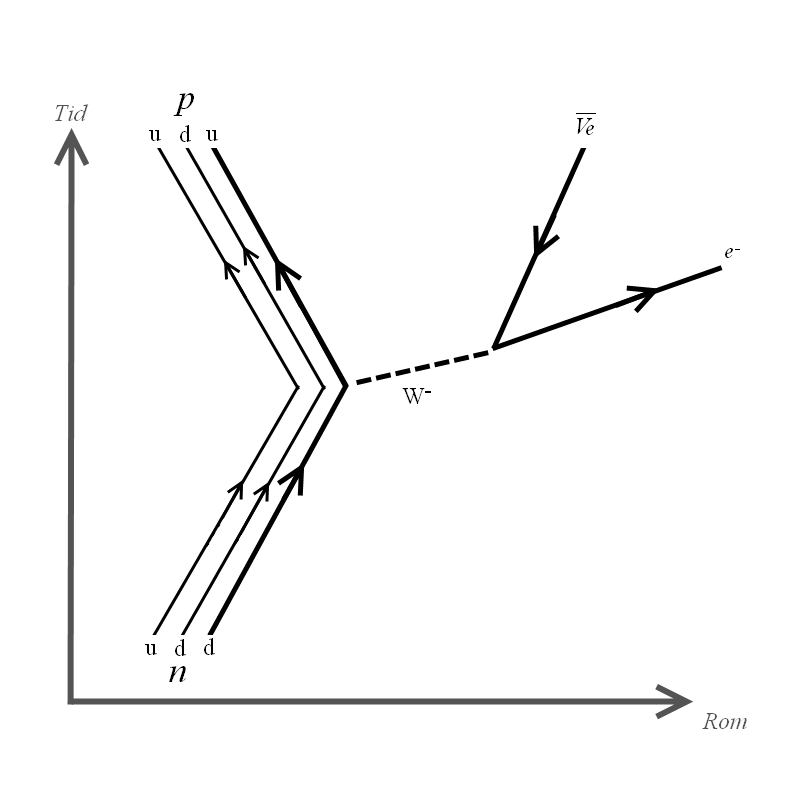 A Feynman Diagram of a Negativ Beta Decay. There is a similar diagram on Wikipedia, but it depicted the W- boson transfer as a photon transfer. (Norwegian units)